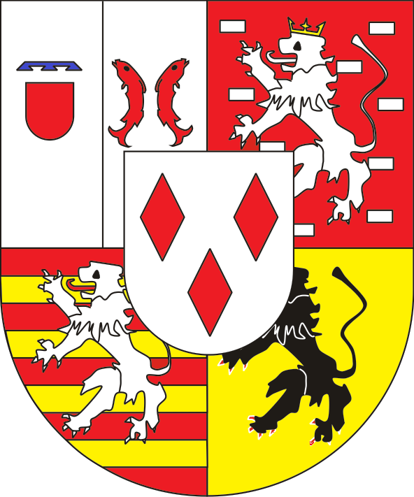 coats of arms of the county of Salm-Reifferscheid (1600-1816); 1a: lordship of Reifferscheid; 1b: county of Lower Salm; 2: lordship of Bedbur; 3: lordship of Hackenbroich; 4: lordship of Dyck